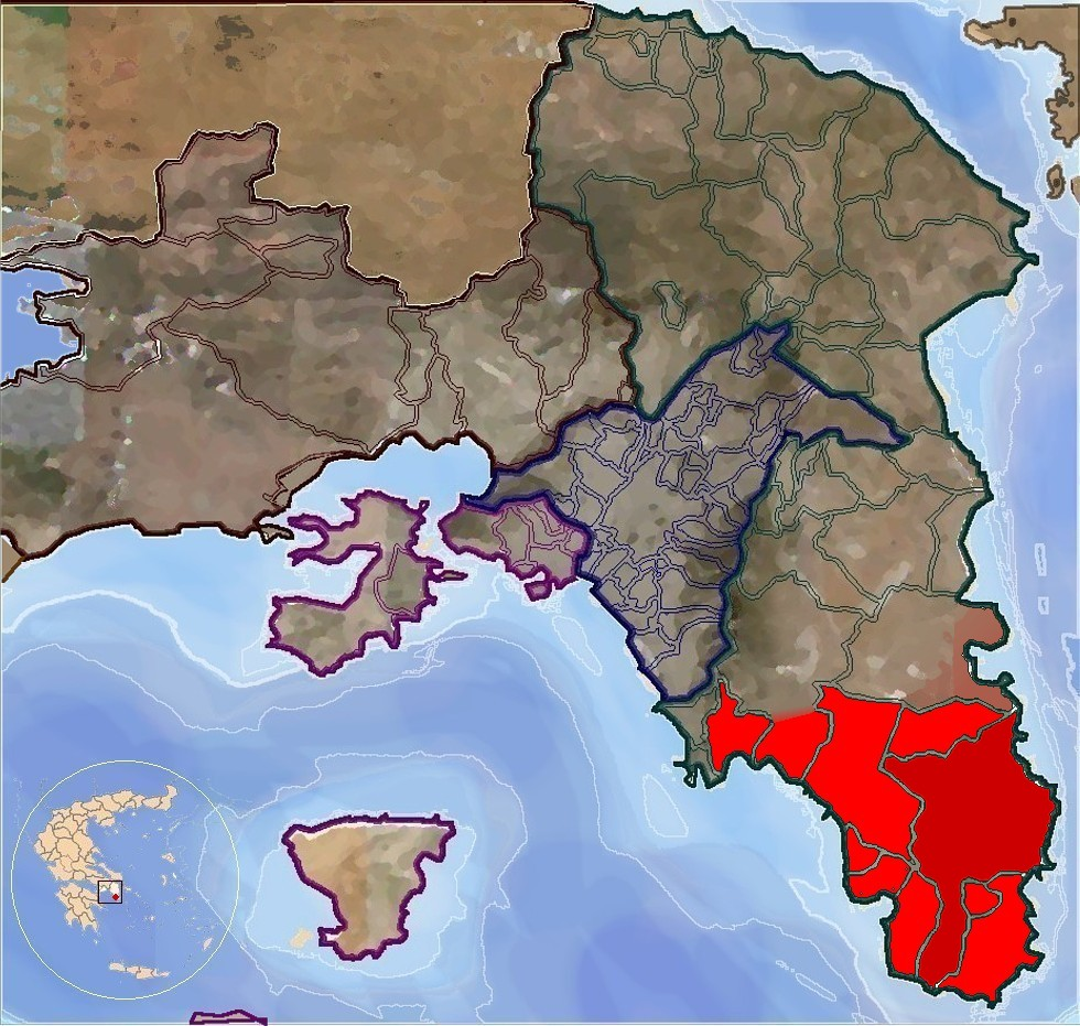 map